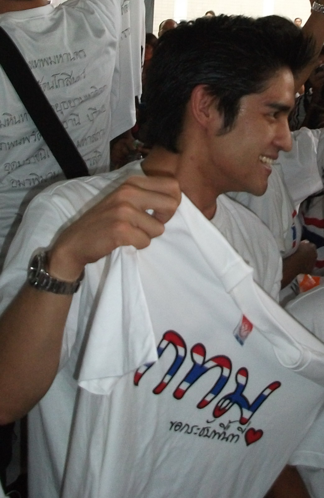 Danai Jira at Parc Paragon, Siam Paragon, Bangkok.